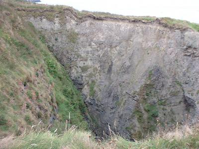 Monk's Cave, photo taken by myself